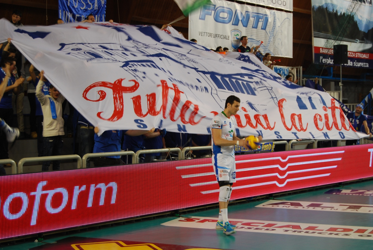 Francesco Mattioli and Altotevere Volley Supporters, San Giustino, Italy, 2013, March 17th